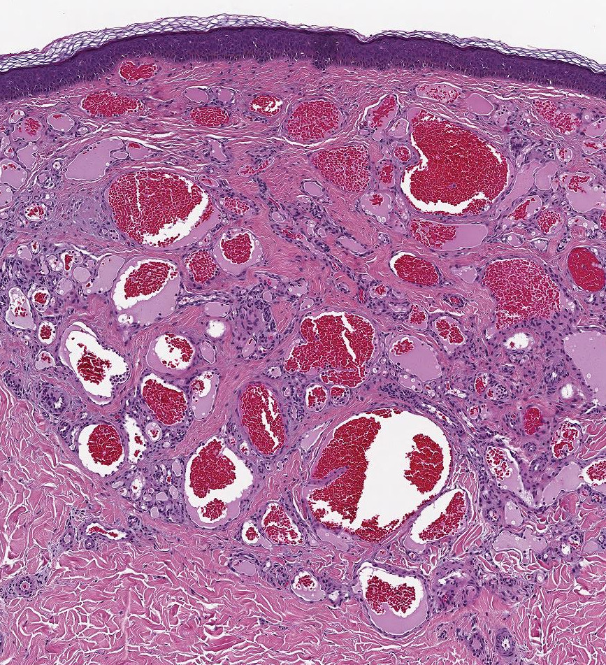 dermal capillary haemangioma